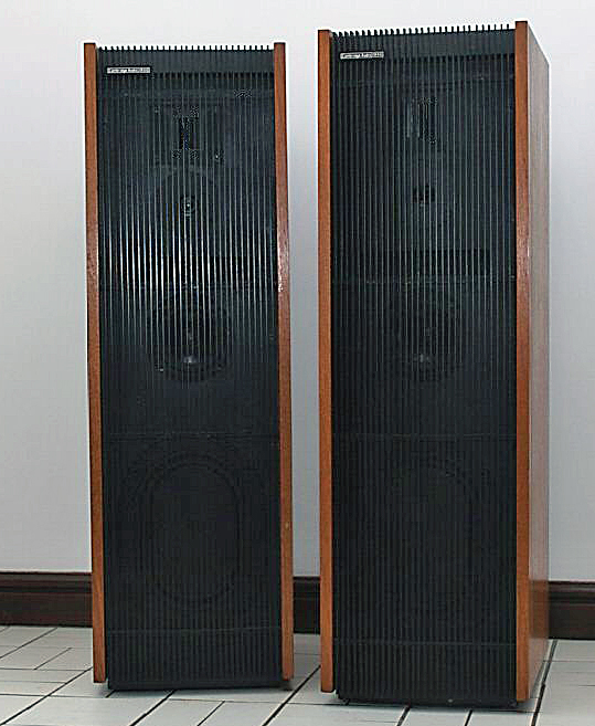 Cambridge audio R50 (2)